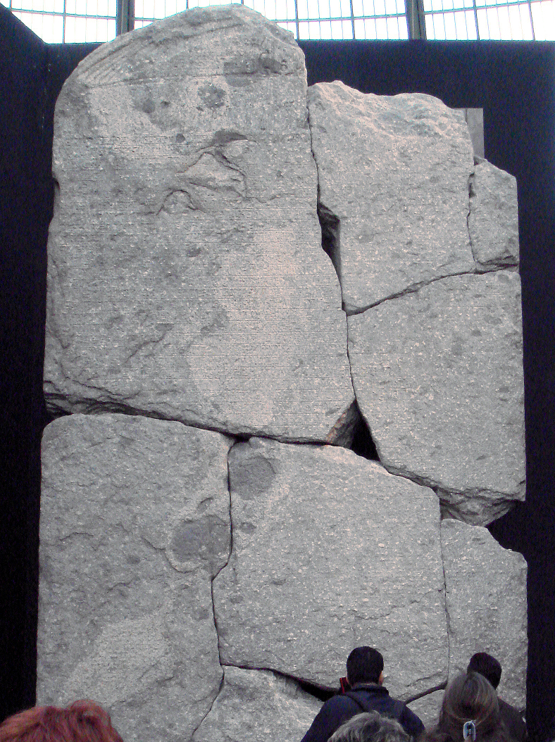 Monumental stela attributed to Ptolemy VIII, glorifying his rule and describing his support of Egyptian gods. The stela was written in Egyptian hieroglyphs as well as Greek. Grand Palais exhibition. Personal photograph 2006.